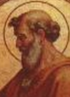 Pope Boniface I, from the Pope Gallery in San Paolo fuori le mure